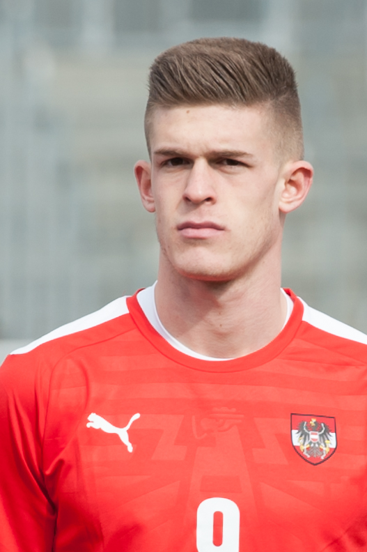 European Under-19 Championships 2015 Elite Round, Austria vs. Croatia, 28/03/2015 Wiener Neustadt, Lower Austria